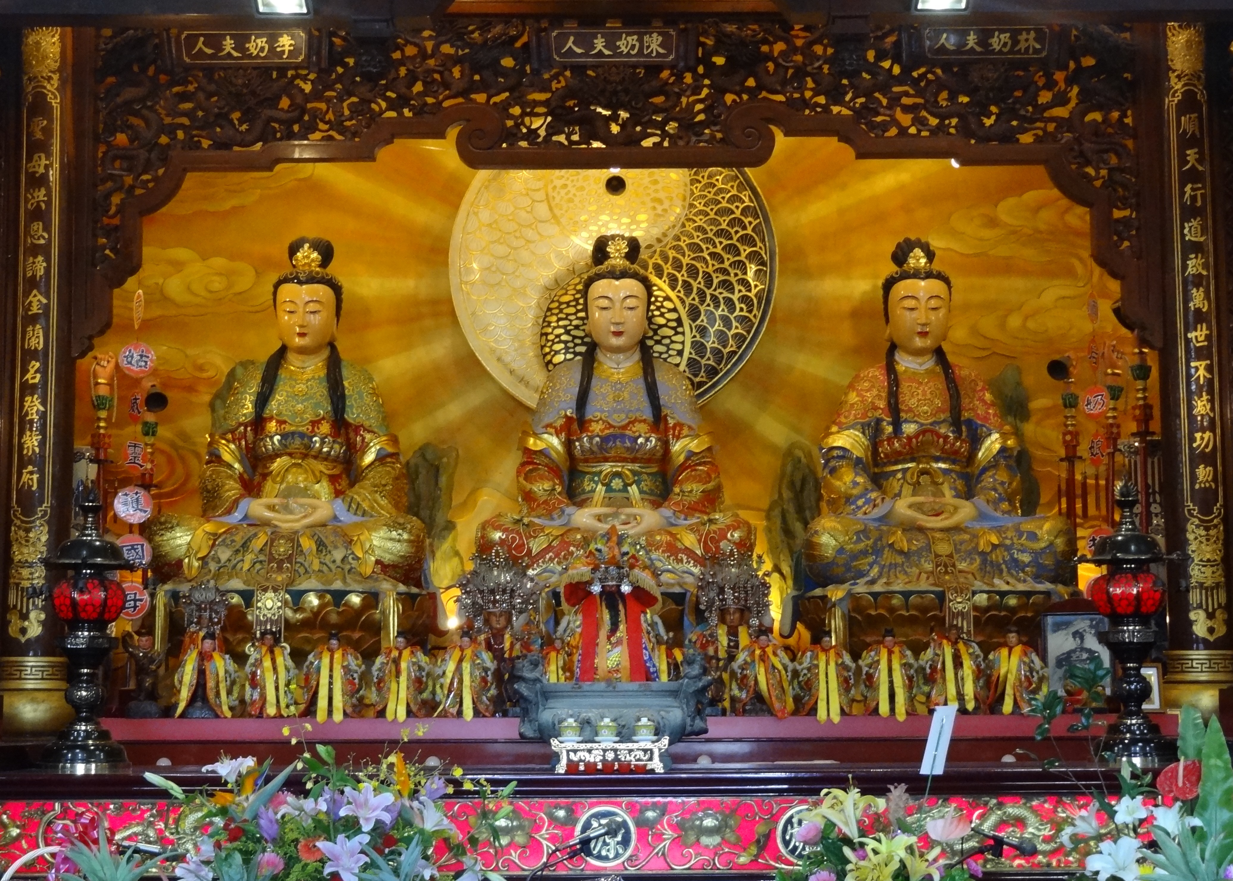 Chénjìnggū (陳靖姑 "Old Quiet Lady", but also interpreted as a woman with the surname "Chen") alias the Waterside Dame (临水夫人 Línshuǐ Fūrén), and her two attendants, Lin Jiuniang and Li Sanniang, at the "Temple in Harmony with Heaven" or "Temple of Heavenly Harmony" (協天宮 Xiétiāngōng), a temple of the Lushan order of Folk Taoism in Luodong, Yilan, Taiwan.